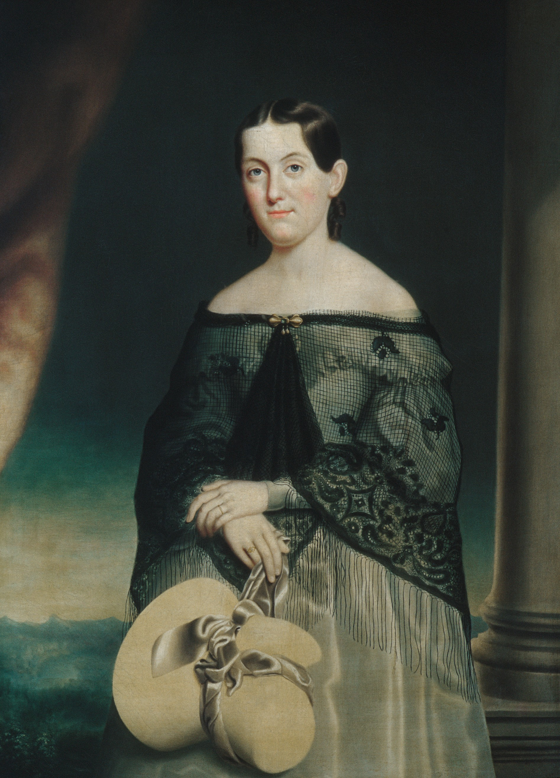 Mrs. James Merrill Cook Artist: Nelson Cook (1808–1892) Date: 1840 Medium: Oil on canvas Dimensions: 48 1/8 x 24 1/2 in. (122.2 x 62.2 cm) Classification: Paintings Credit Line: Gift of Katherine Batcheller, 1931